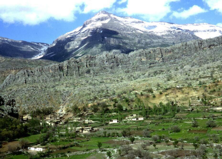 Pendro in spring (1968) Kurdî: گوندی پێندرو لە بهاری سالی ١٩٦٨ - gundê Pêndro li sala 1968